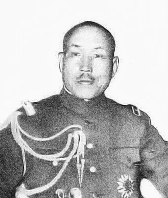 Okiie Usami